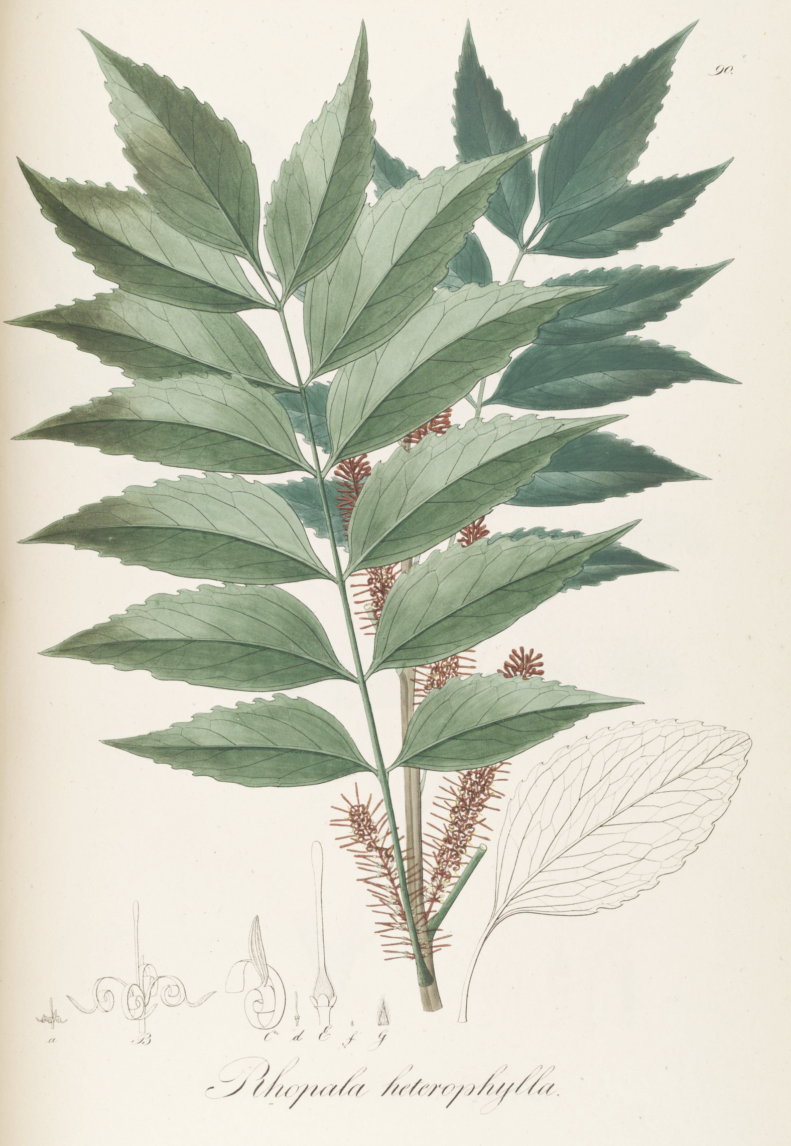 Plate from book